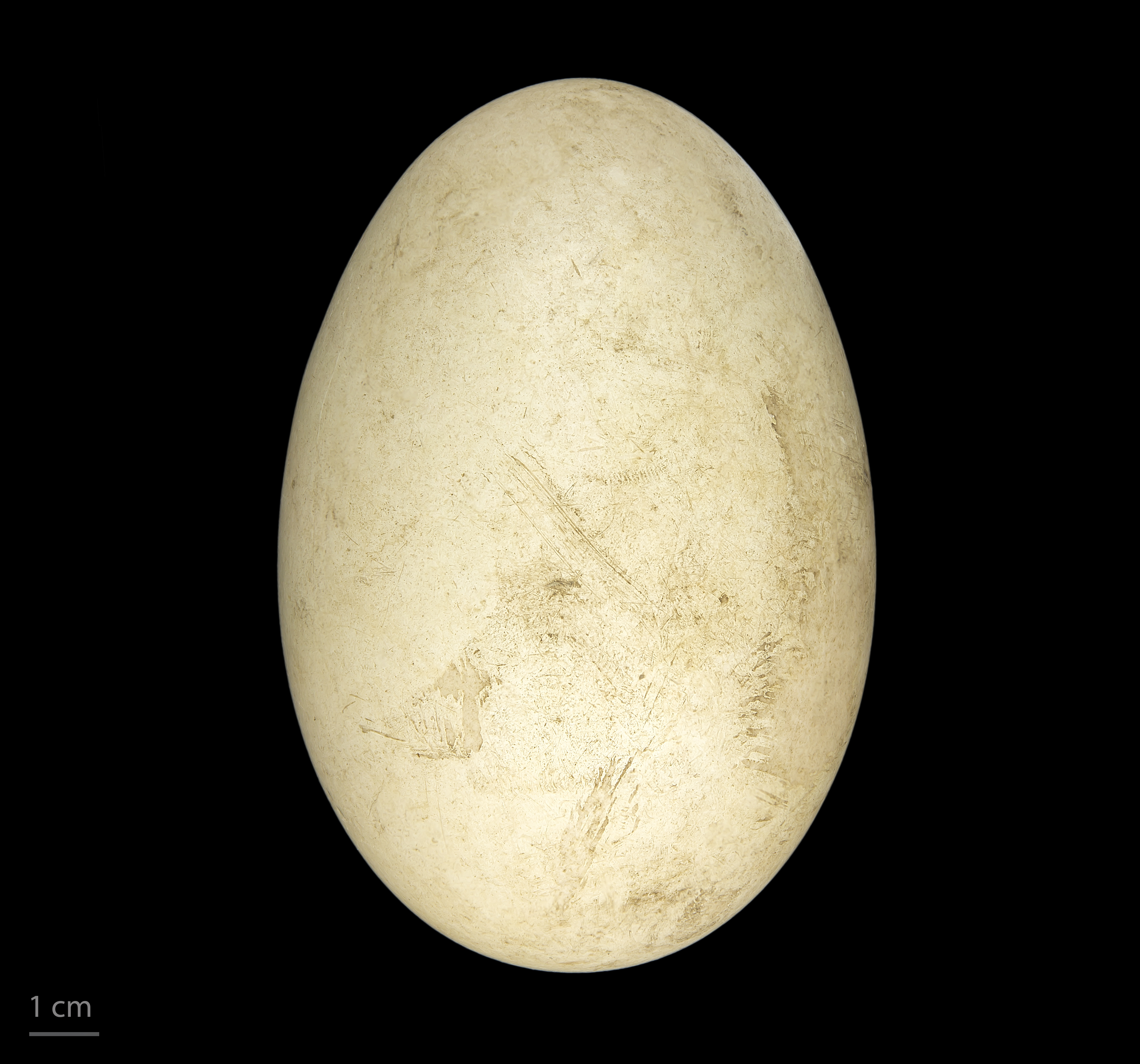 Egg of black-necked swan Collection of Jacques Perrin de Brichambaut.